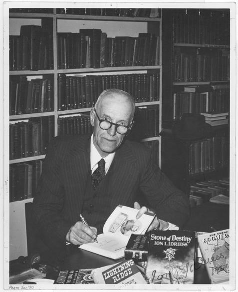 Ion Idriess, Australian writer